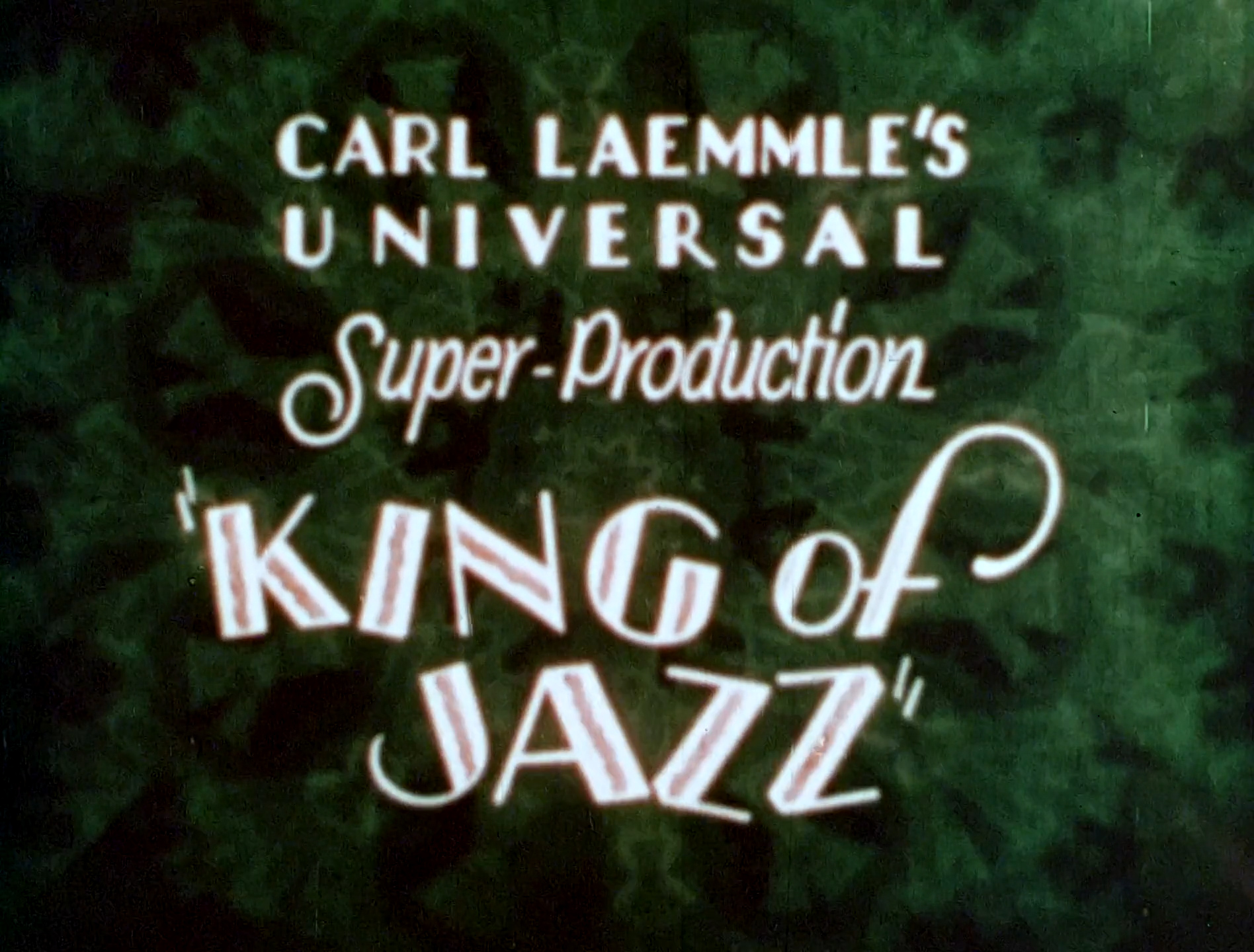 Screenshot of the trailer of the film "King of Jazz" (1930).